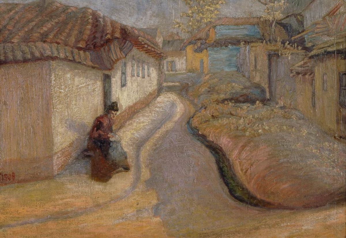 Jewish girl in Belgrade - Nadežda Petrović, 1908.